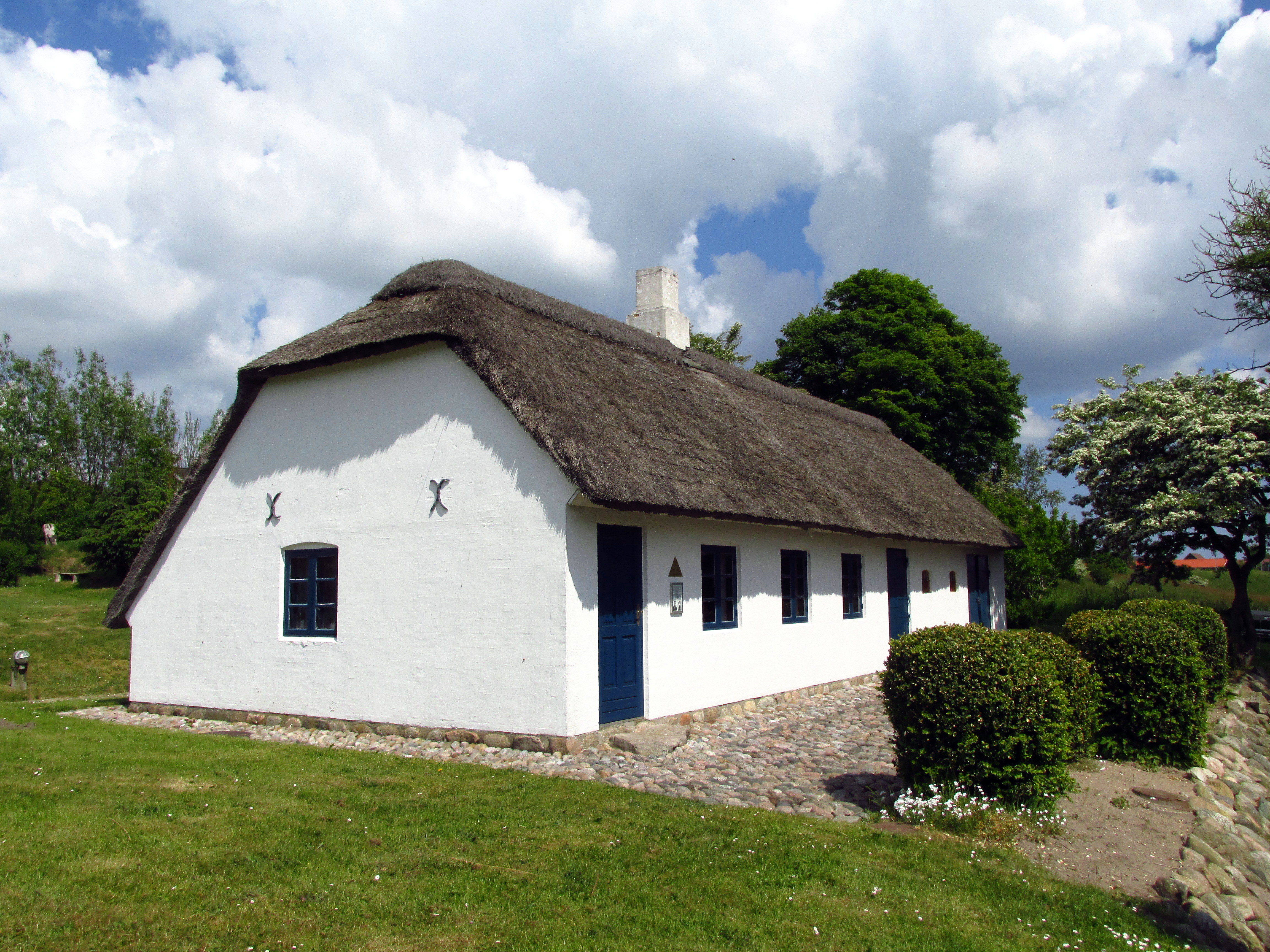 The childhood home of Danish cosmologist Martinus Thomsen i Sindal, Denmark, today a museum